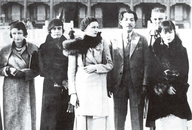 From right to left: Yu Fengzhi (于鳳至, wife of Zhang Xueliang), W.H.Donald (Australian consultant of Zhang Xueliang), Zhang Xueliang. In center the comtesse Edda Ciano (daughter of Mussolini and wife of Italian ambassador in China Galeazzo Ciano)